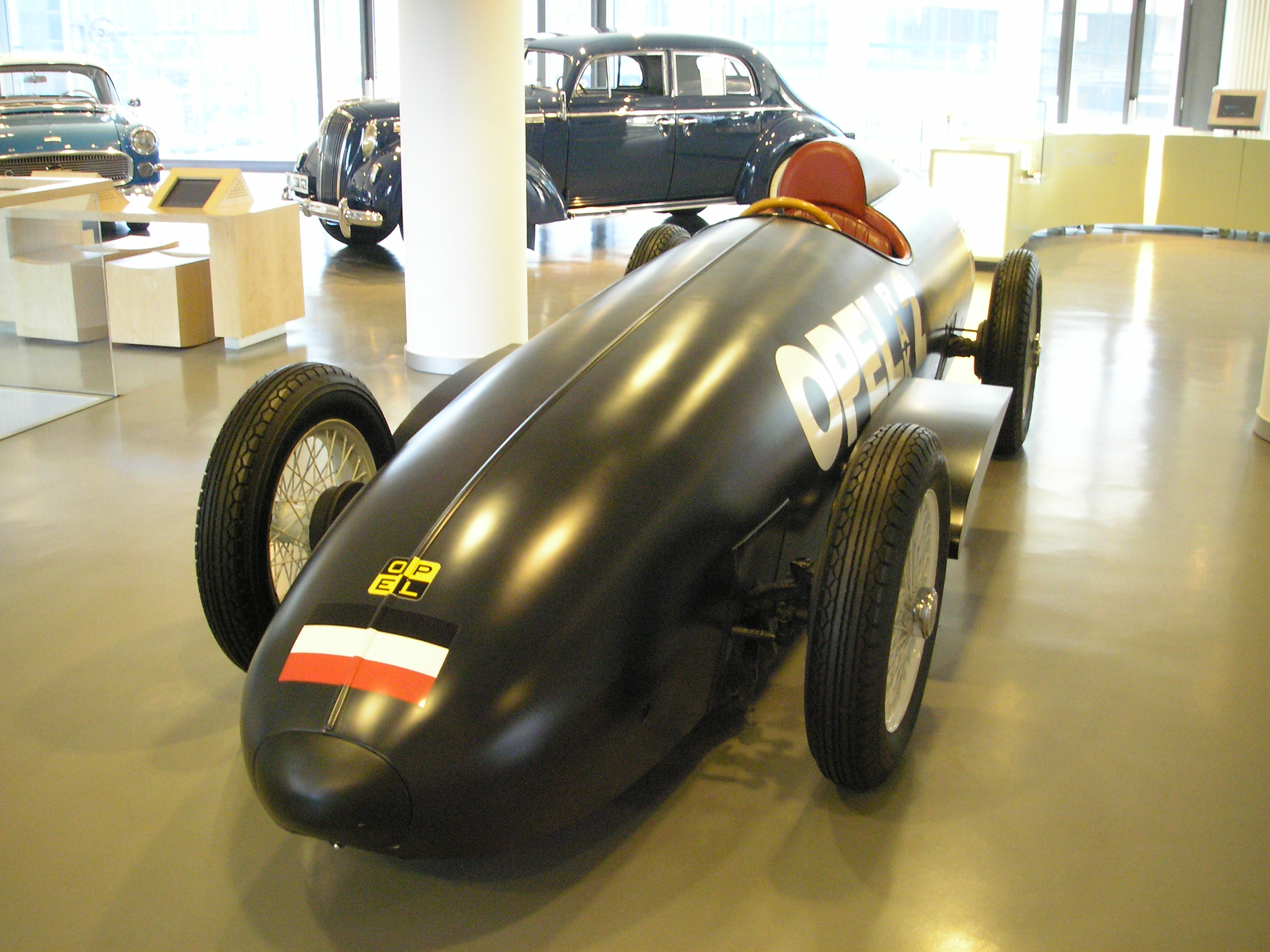 A 1928 Opel RAK2 (“RAK” stands for Rakete, “rocket”) at the “OPEL in Berlin” building, Friedrichstraße. This car, propelled by a rocket engine, reached 238 km/h (148.75 mph) on the AVUS racetrack in Berlin on May 23, 1928. Albeit being built in the Weimar Republic, it bears the flag of the old German Empire, which was still common in more conservative circles.